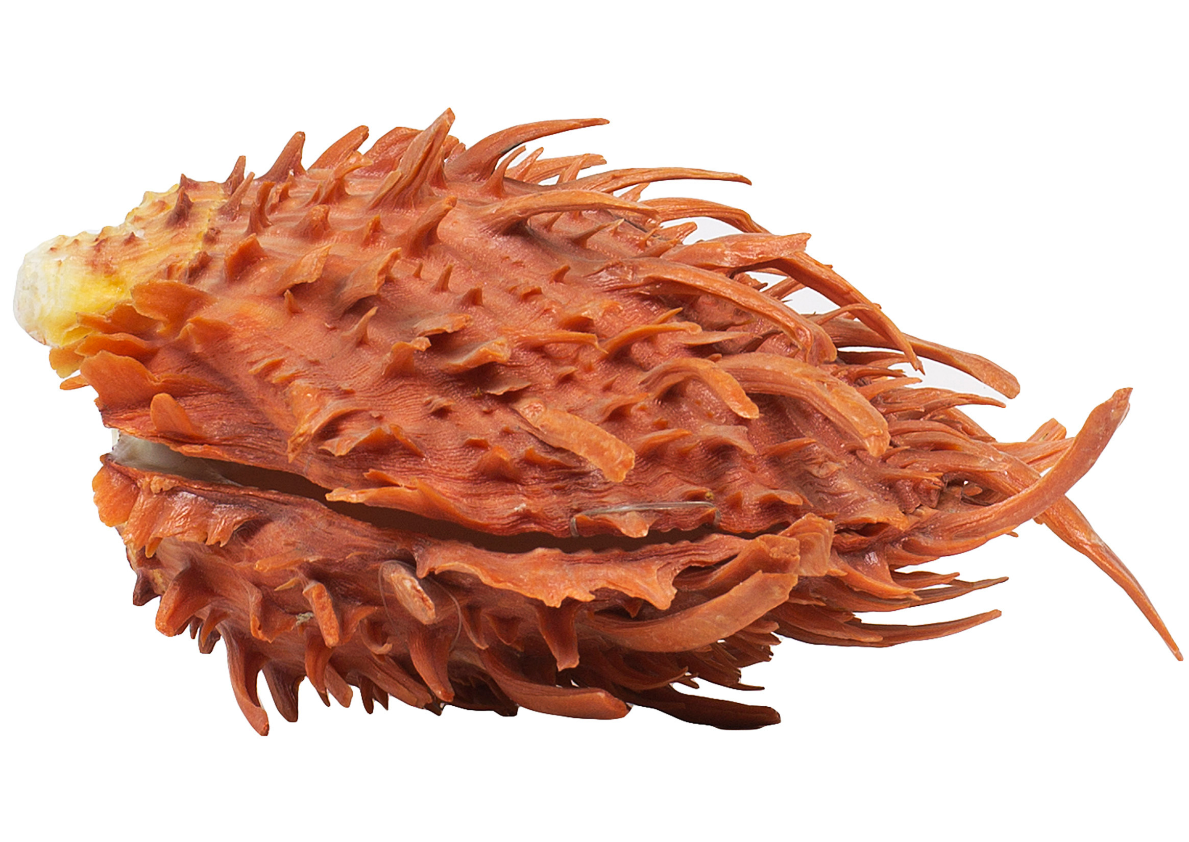 USNM Number: EO400145-DSP Scientific Name: Spondylus crassisquama Record ID: nmnheducation_10802760 This object is part of the Education and Outreach collection, some of which are in the Q?rius science education center and available to see.114 Jan 2020